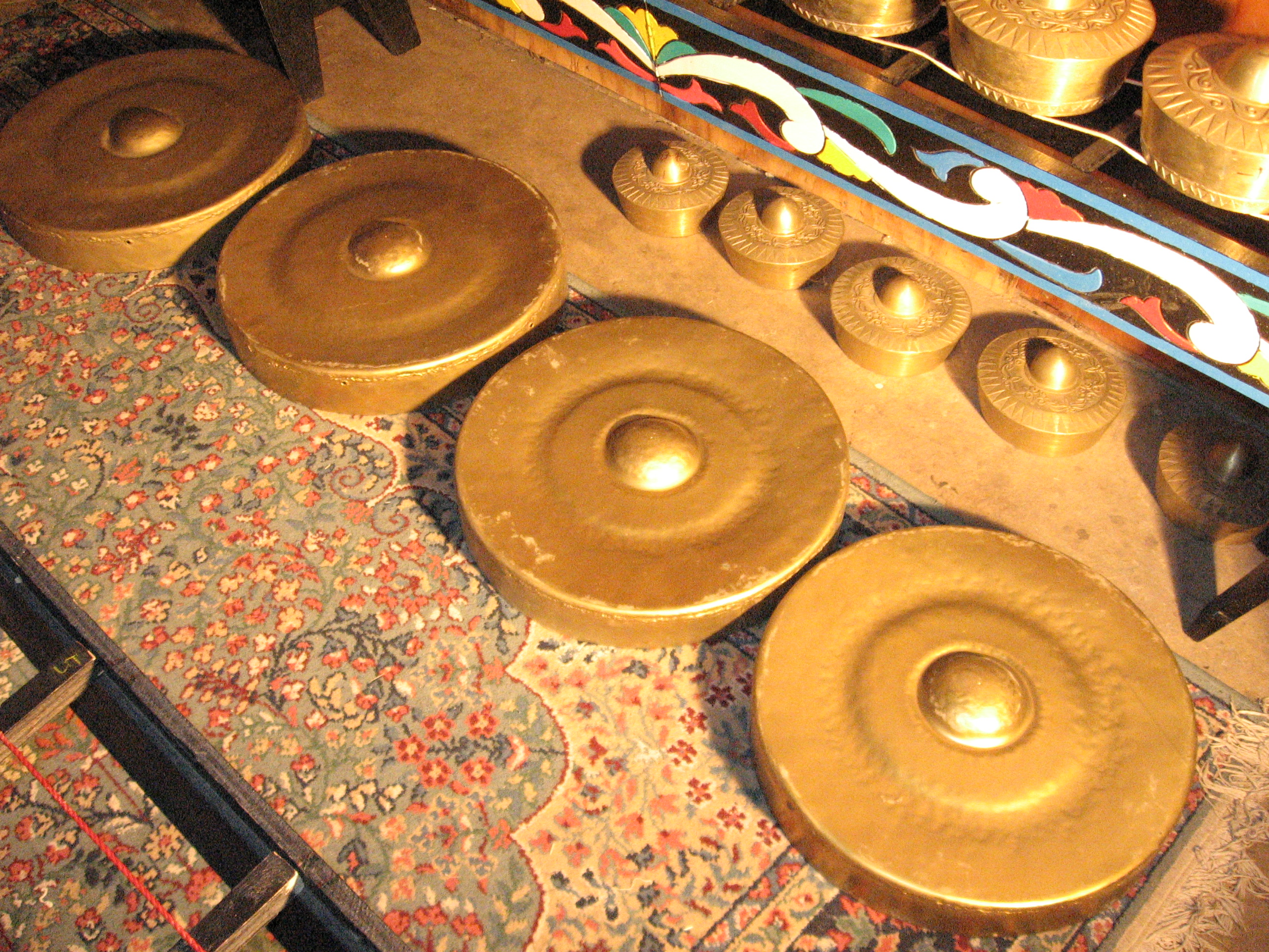 The four Philippine vertically hanged gongs known as the gandingan used as a secondary melodic instrument in the kulintang ensemble, shown here strewn on the floor.